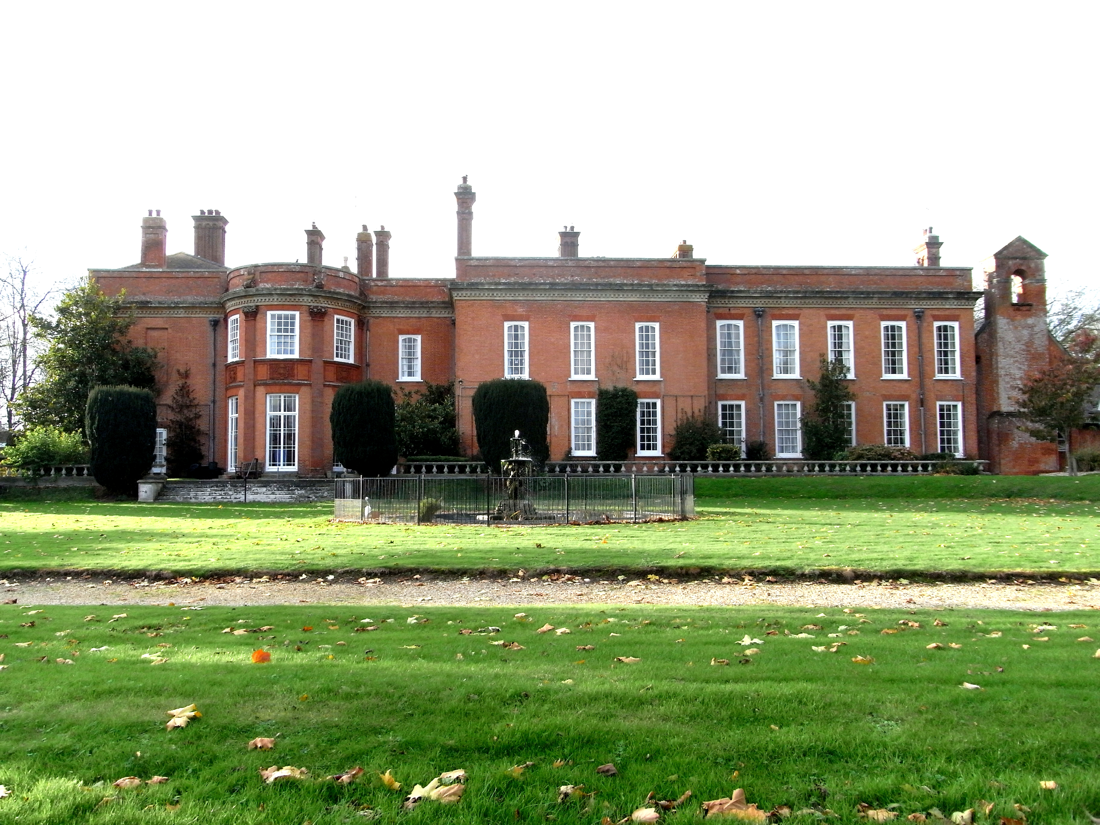 Fremington House, Fremington, North Devon, east front